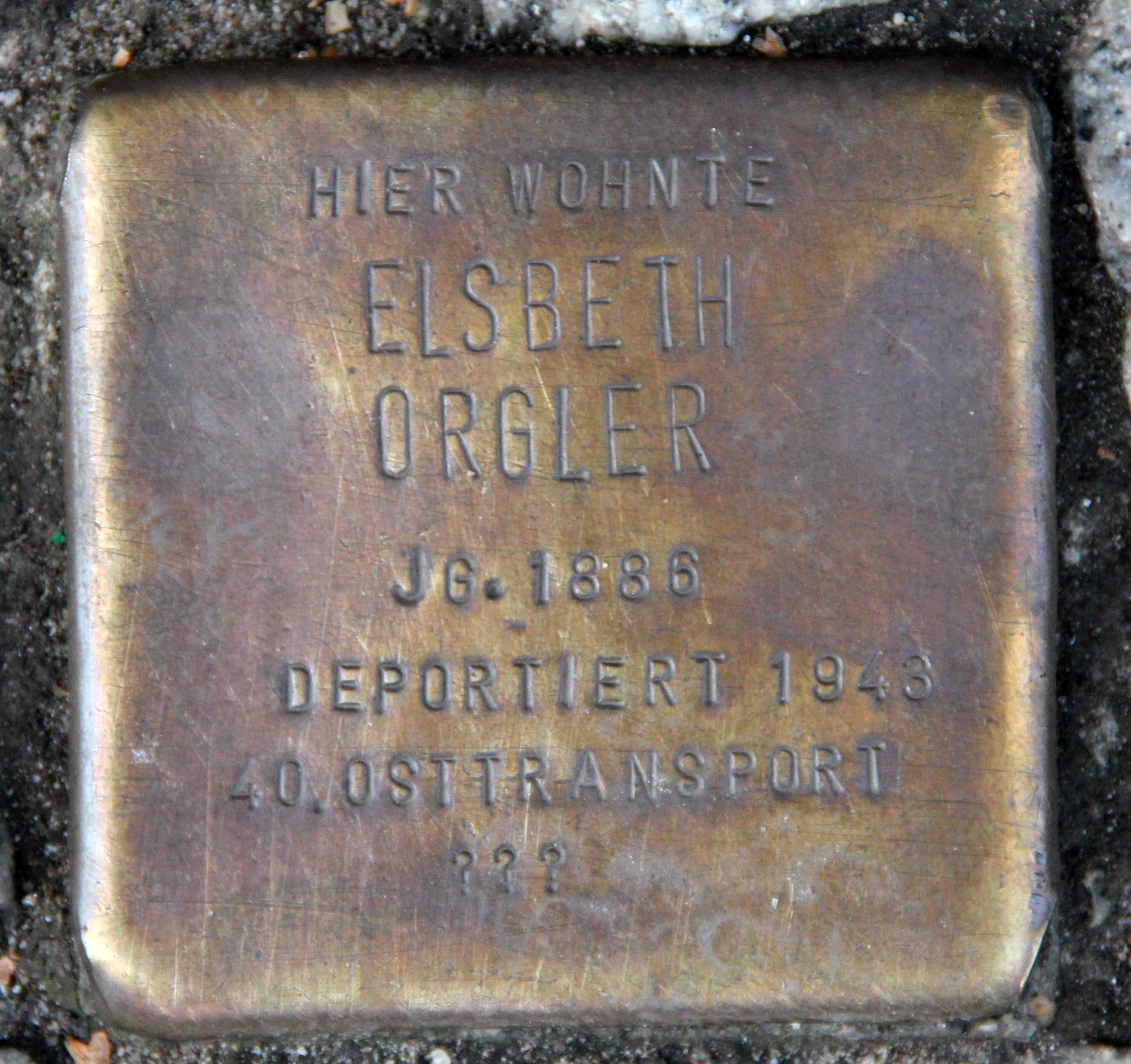 "Stolperstein" (stumbling block), Elsbeth Orgler, Wilhelmstraße 140, Berlin-Kreuzberg, Germany